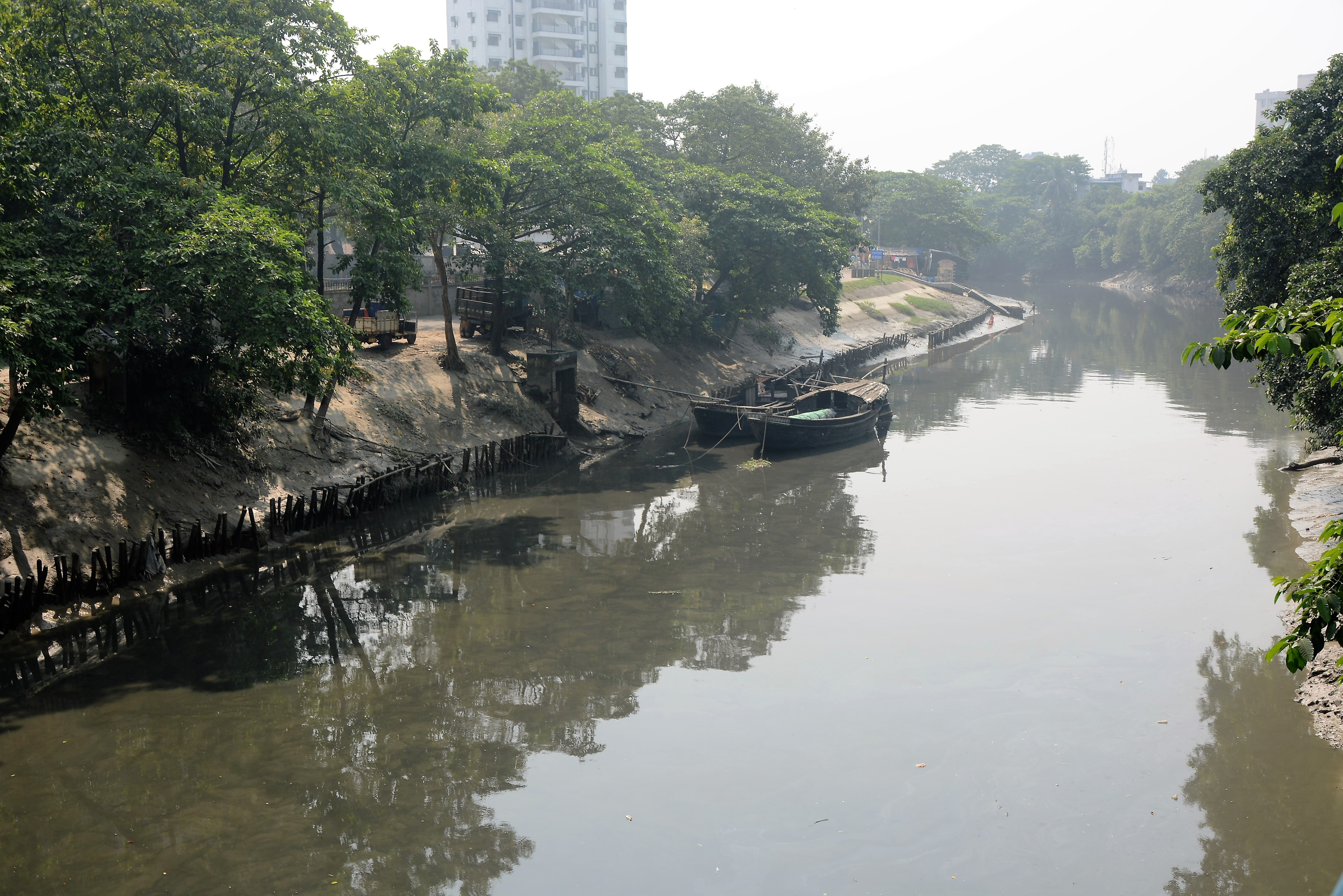 Adi Ganga near Dahi Ghat.